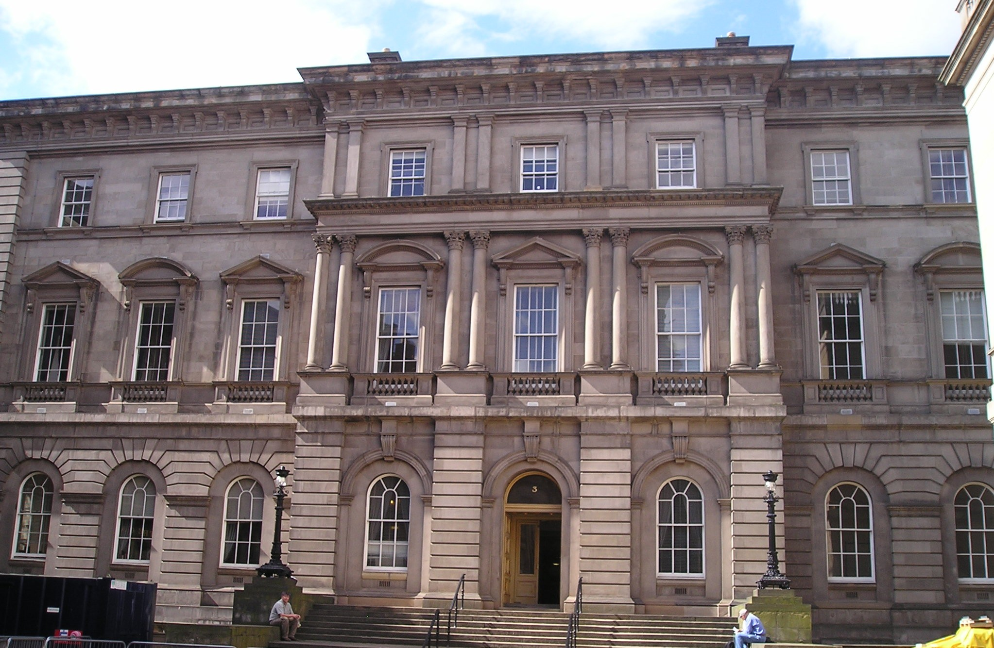 New Register House in Edinburgh. Home of the Lyon Court and the General Register Office for Scotland.